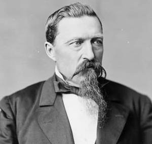 Routhier, Felix M.P. (Prescott) May 21, 1827